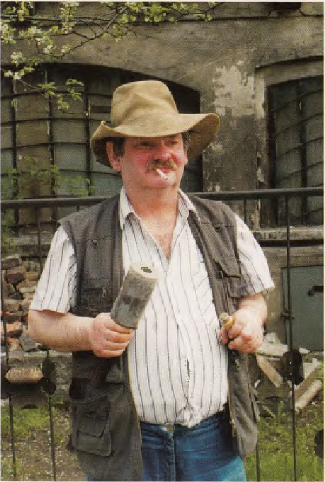 Wiesław Adamski in front of his workshop